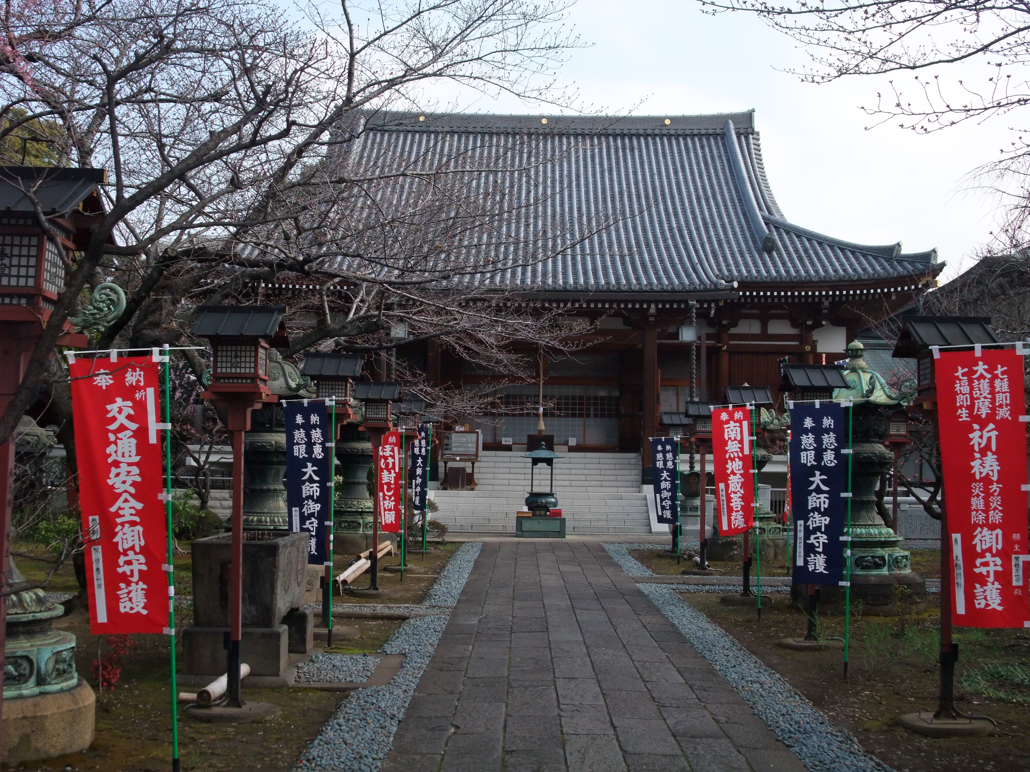 Ryōdaishi-dō, Ryōdaishi